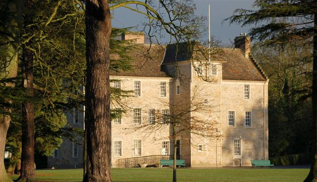 Pittencrieff House Museum Council run museum in Pittencrieff Park.